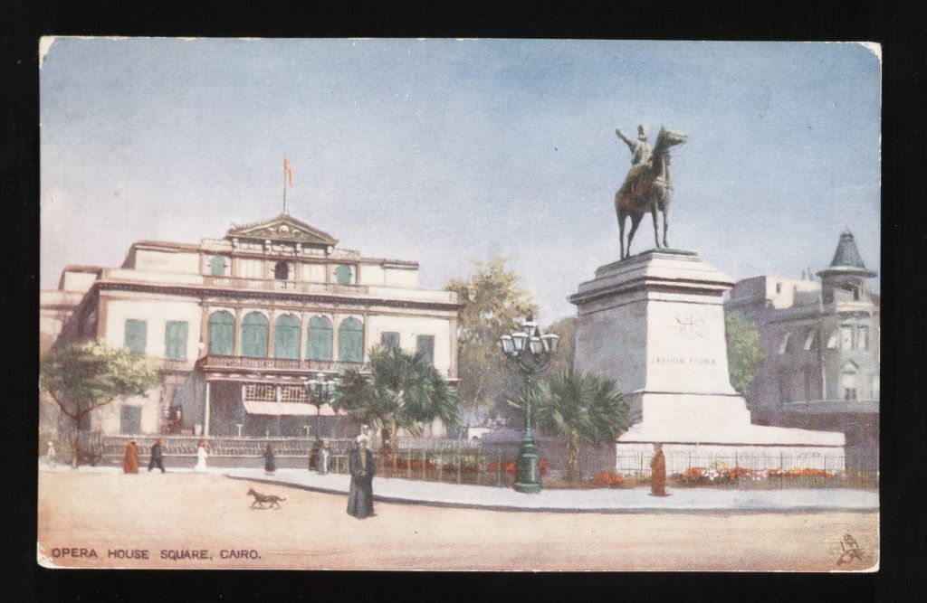 Statue in front of a large, ornate building